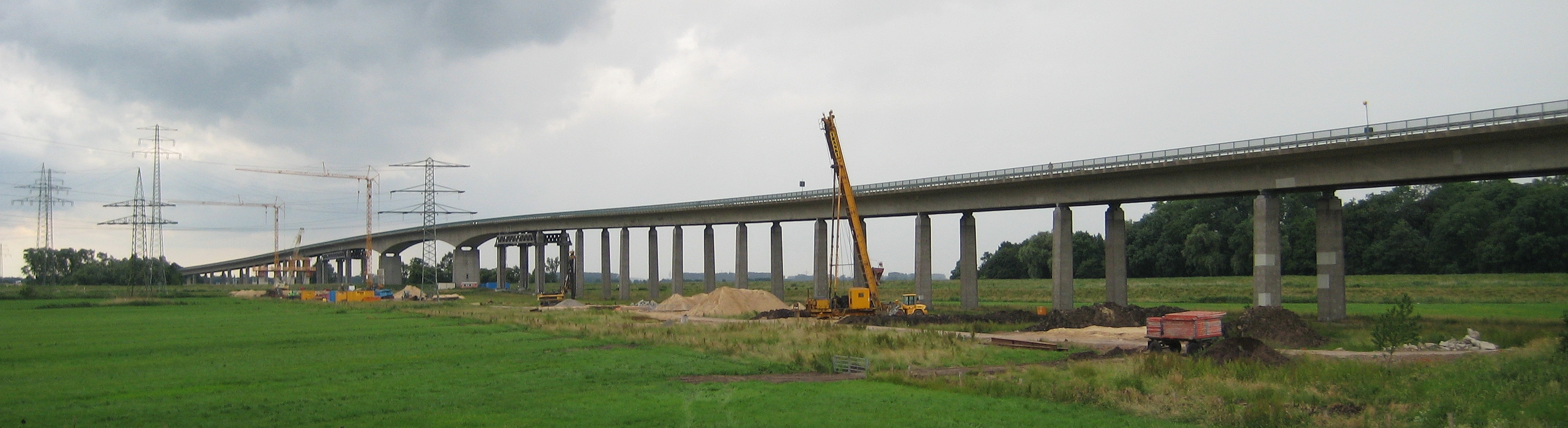 Bridge over the Stör during the Bundesstraße 5 – start of construction of a new bridge (near Itzehoe)